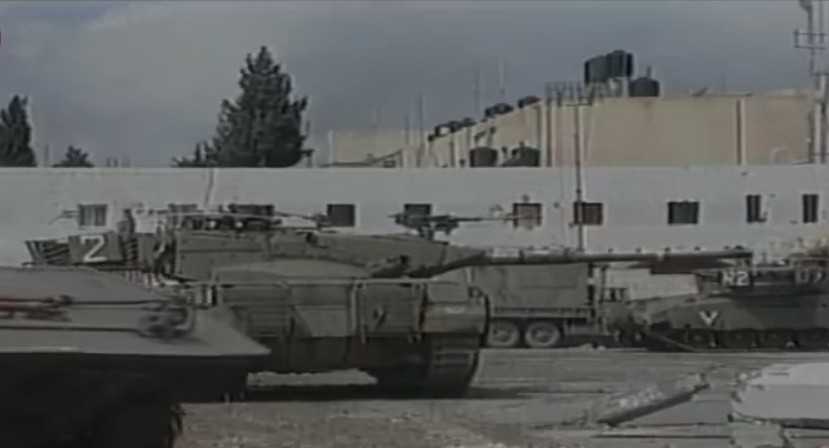 IDF tanks in Ramallah during Operation Defensive Shield, 2002